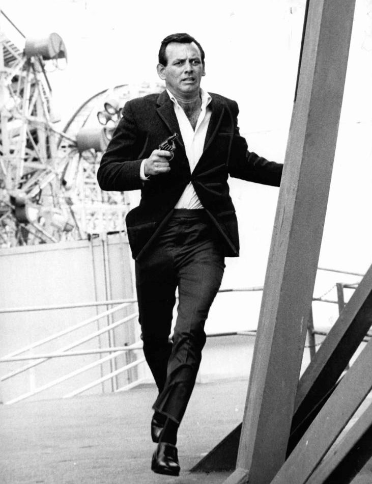 Scene from the last episode of the television program The Fugitive picturing David Janssen as Richard Kimble.